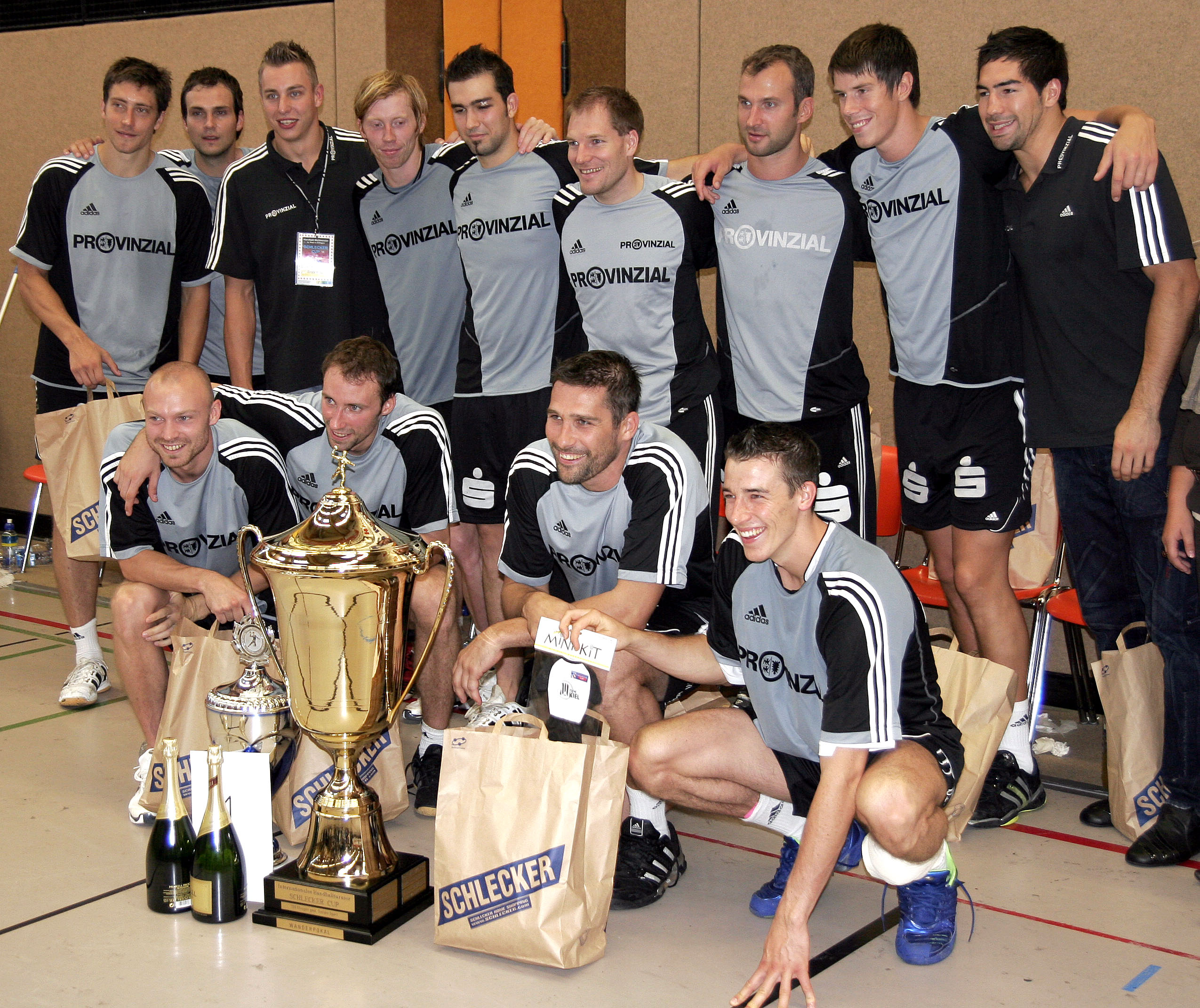 The team of THW Kiel, winning the Schlecker Cup 2007 in Ehingen (Germany)